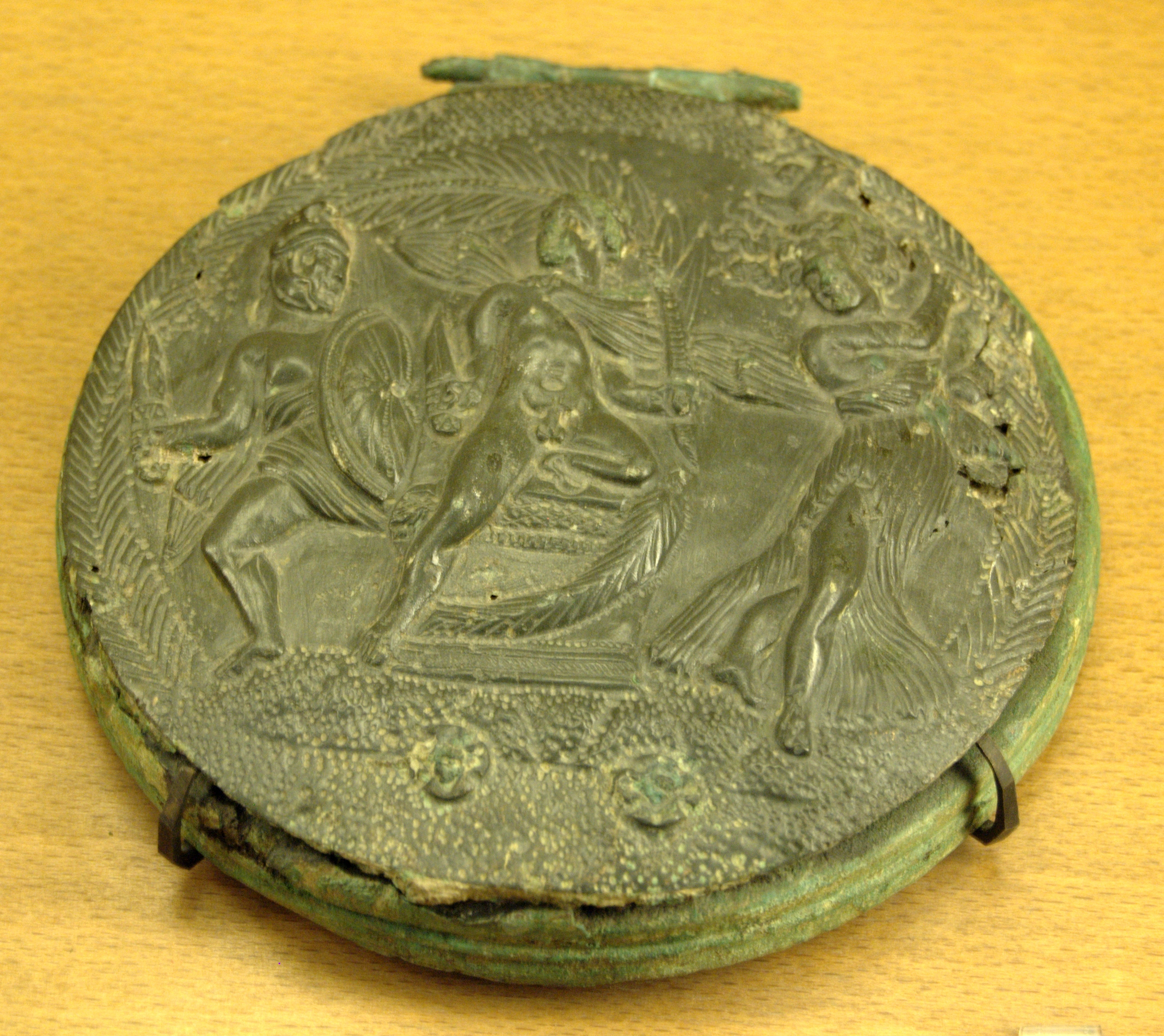 Paris seeking refuge on the altar is recognized by Hector and Cassandra who threatened it. Etruscan box mirror, bronze, 3rd century BC.